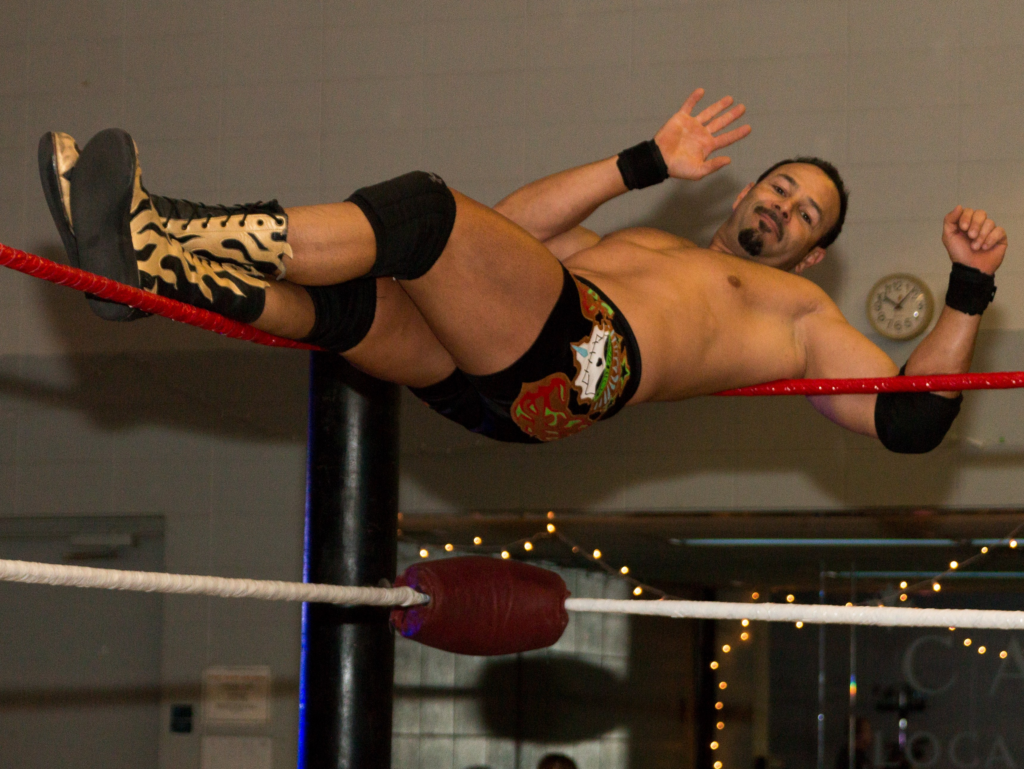 Wrestler Chavo Guerrero, Jr posing prematch before an independent show in St Catherines, ON.